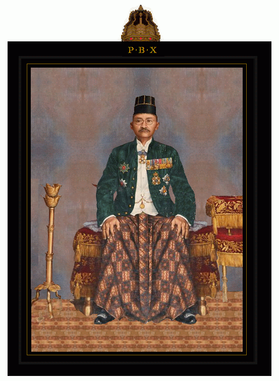 Portrait of Pakubuwono X of Surakarta. The original, an old portrait in oil, is in a very bad condition. I have digitally restored my own photograph of the painting taken in the Kraton. The frame was drawn by myself. It is a reconstruction of the original frame in the Kraton. The painting has duffered badly under the tropical temperature and humidity.